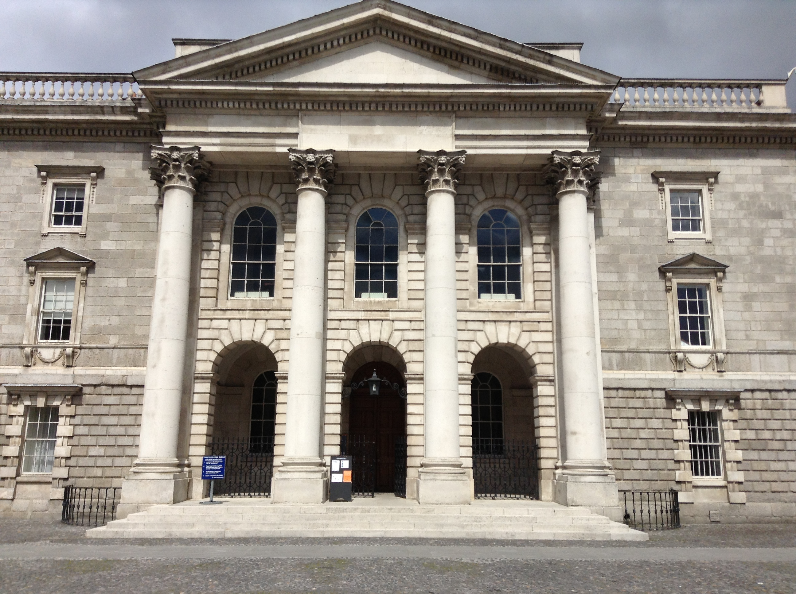 A part of Trinity College, Dublin (IRL).